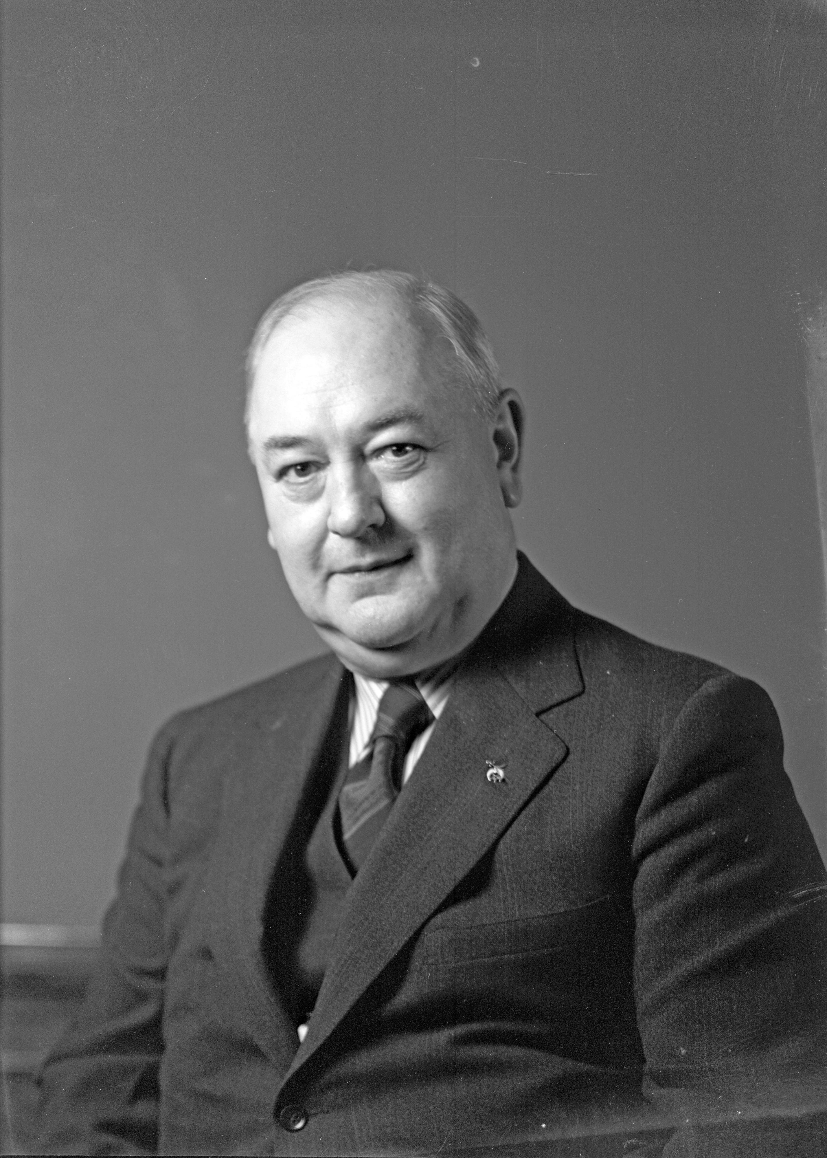 Senator Victor Zednick, 1943